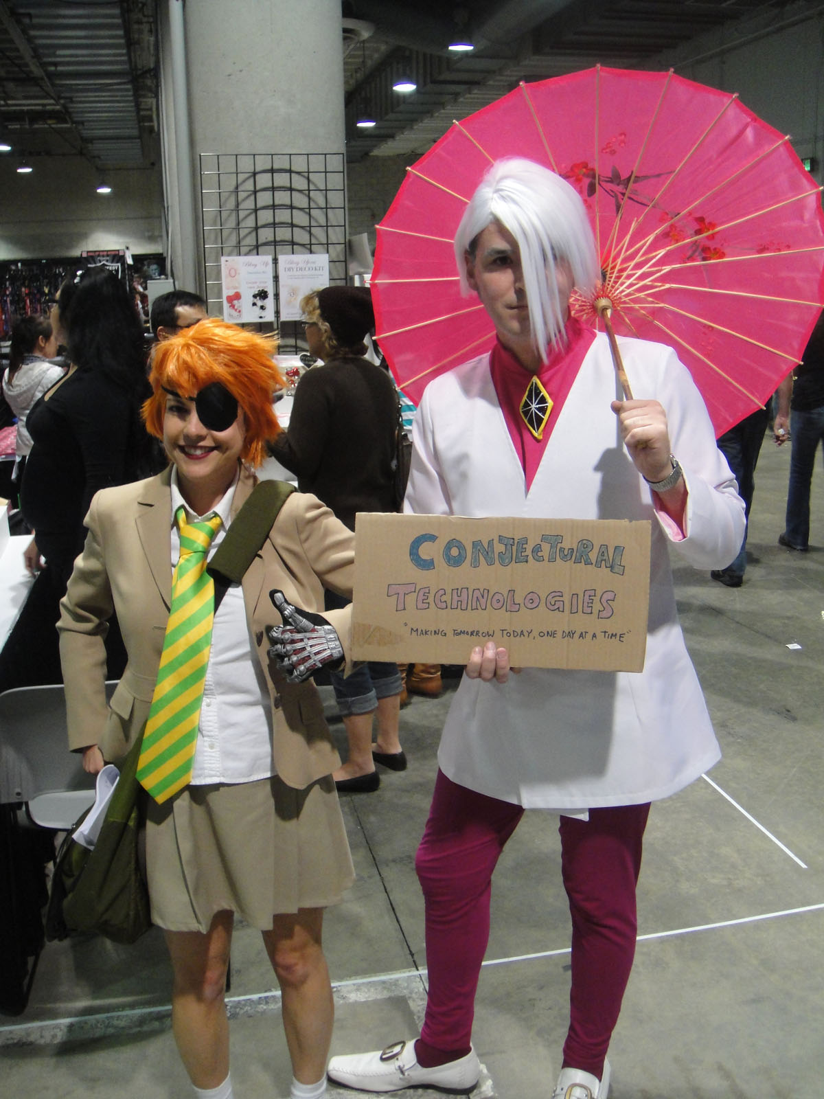 photo 2011 Pop Culture Geek taken by Doug Kline If you're interested in higher resolution versions of my images, contact me via my profile page.